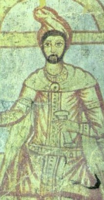 CIMRM 44 (vI.67): Palmyrene pater of the Roman cult of Mithras at Dura Europos (Syria), 3rd century, imagined by Franz Cumont to be a depiction of "Zoroaster" (published posthumously in 1975, "The Dura Mithraeum", Mithraic Studies: Proceedings of the First International Congress of Mithraic Studies, pp. 151-214). Cumont's continuity hypothesis is no longer followed today. This image appears as 'plate 25' in the aforementioned text, fig. 22b in CIMRM vol I. Rostovtzeff (who supervised the dig) is quoted in the aforementioned paper (p. 183, n. 174): "The two figures are Palmyrene in all their characteristic traits. [...] Compare the pater in the Mithraeum of Sta. Prisca." They are more probably portraits of leading members of that mithraeum's congregation of Syrian auxiliaries. The Roman military presence at Dura Europos included a unit of Palmyrene archers (p. 205).